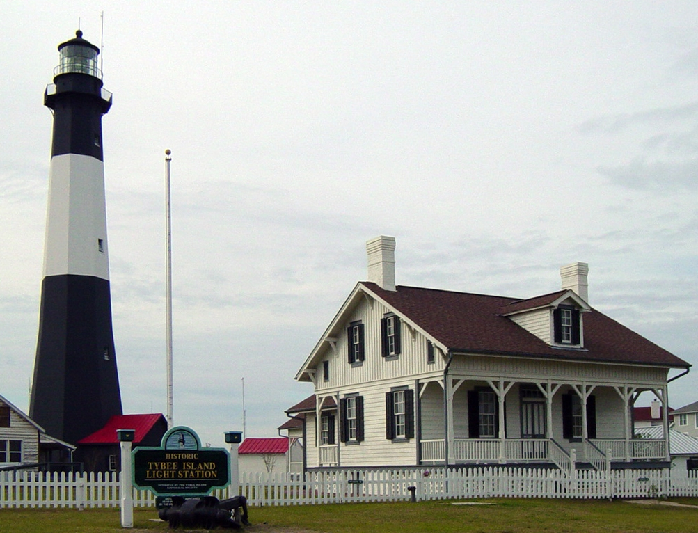 Historic Tybee Island Light Station, taken by me during November 2004.